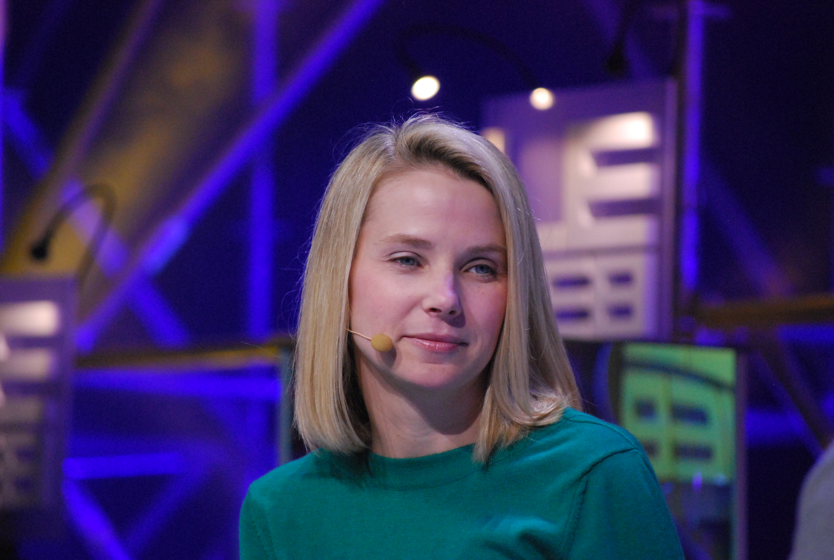 Marissa Mayer at an interview while working for Google.